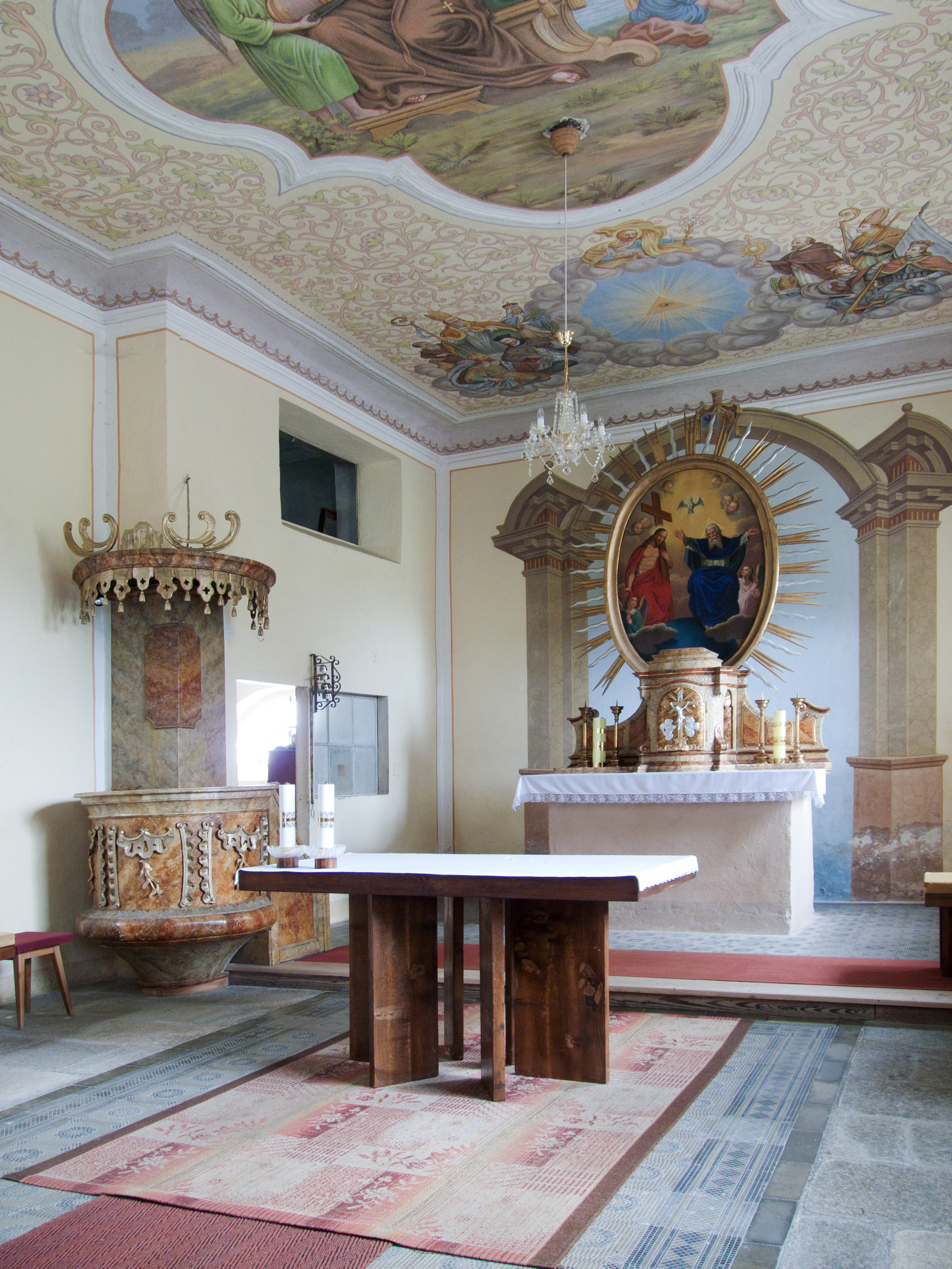 Interior of the Holy Trinity Church in the village of Neznašov, České Budějovice District, Czech Republic